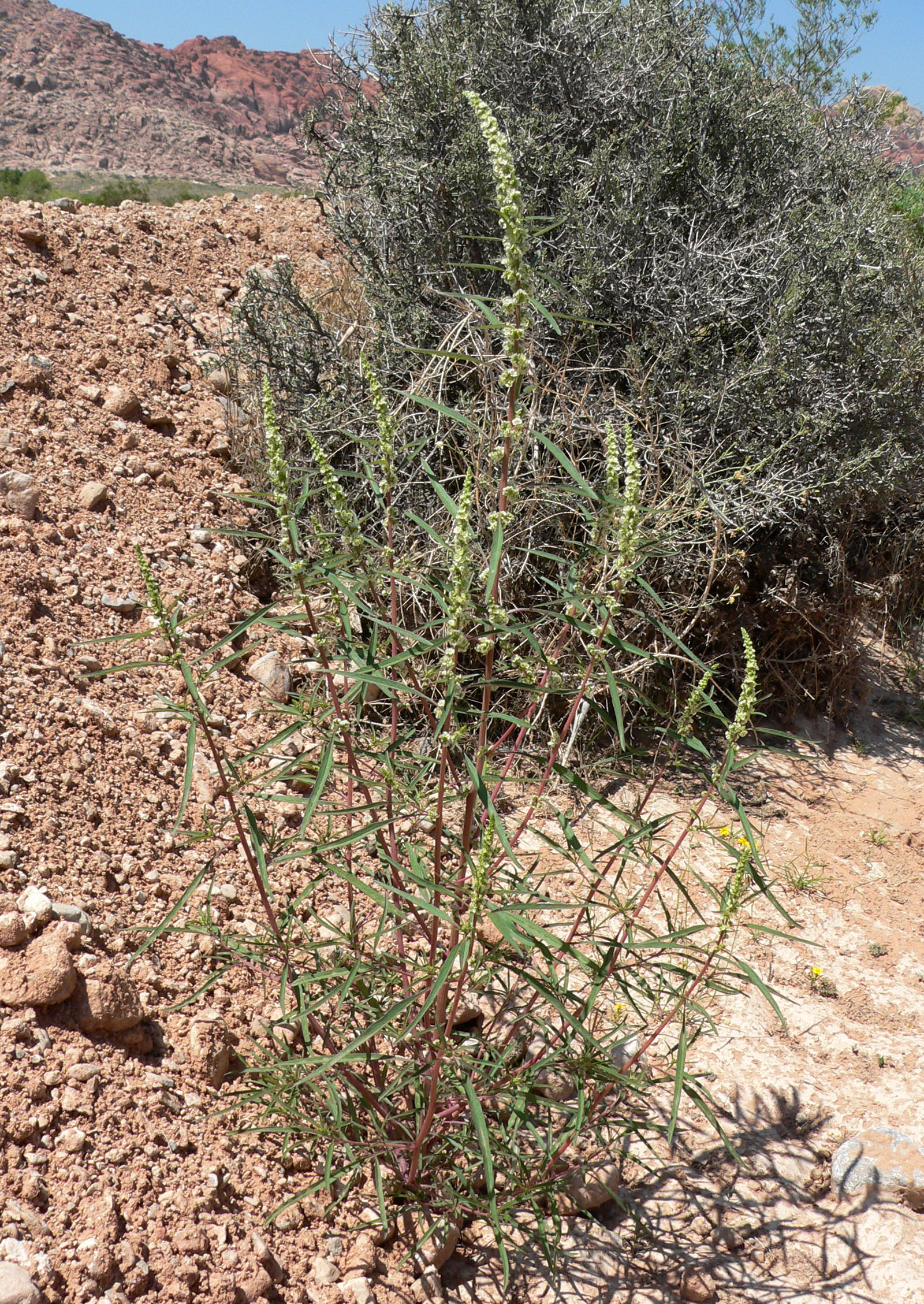 Amaranthus fimbriatus in Calico Basin, Red Rock Canyon, southern Nevada